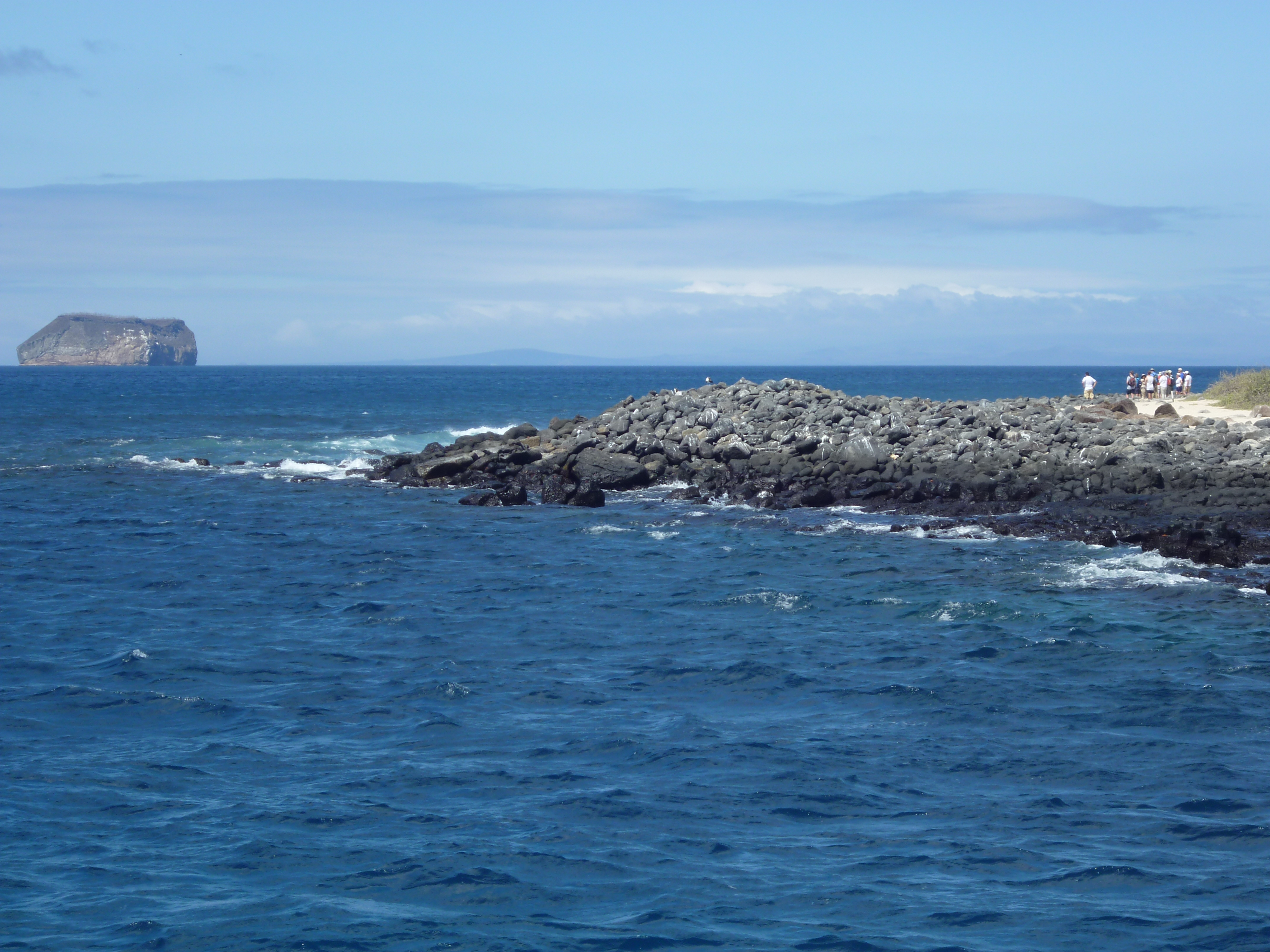 Professional photographer David Adam Kess took this photograph before going ashore to North Seymour Island in the Galapagos.